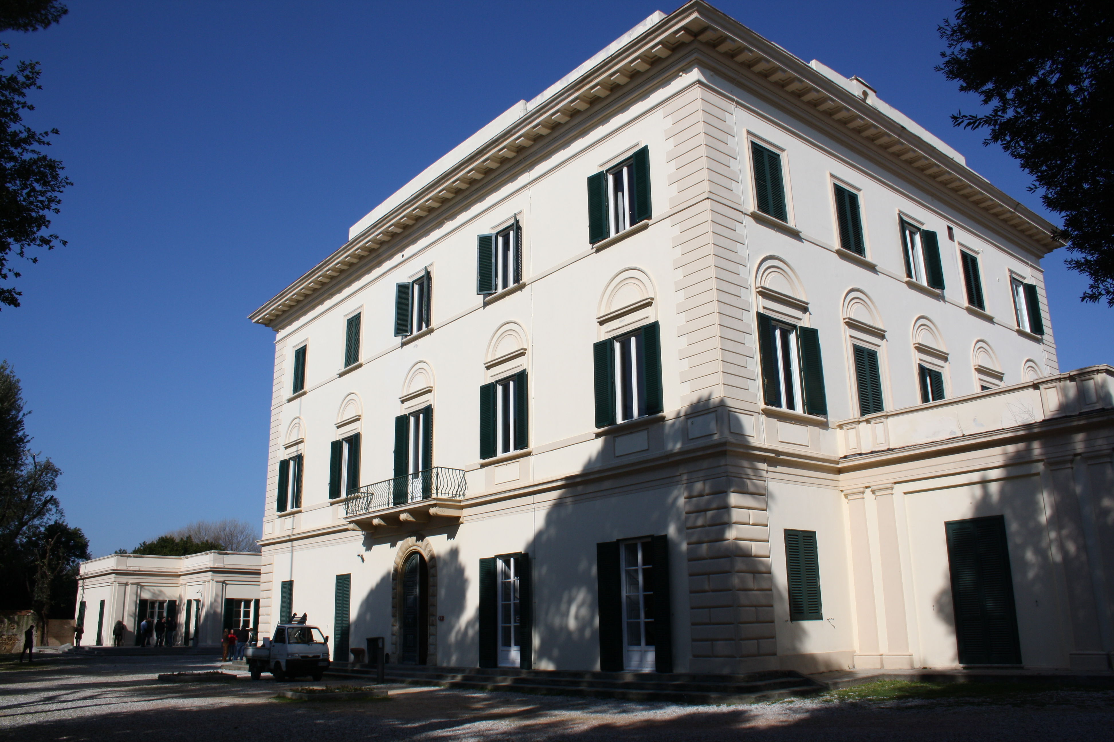 Italy, Livorno, Via dei Pensieri. Villa Letizia has been the site of the State Secondary School “Leonardo da Vinci” from October 1st, 1970 until August 31, 2000. Nowadays is the section of the University of Pisa concerning the course of Economy and Legislation of Logistic Systems.